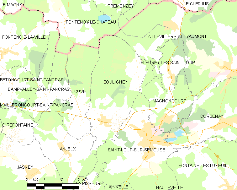 Map of French municipality